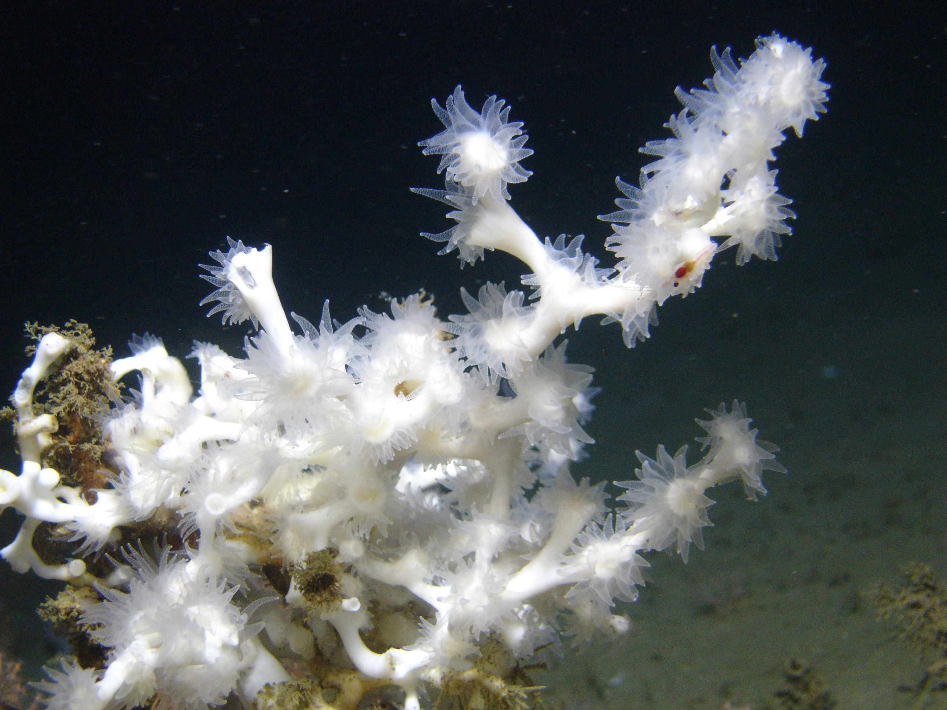 A close-up of the scleractinian coral Lophelia pertusa from the Mississippi Canyon 751 site at approximately 450 m depth. This image was taken with the SeaEye Falcon DR ROV during the first cruise of this program in September 2008. Image courtesy of Lophelia II 2009: Deepwater Coral Expedition: Reefs, Rigs, and Wrecks.